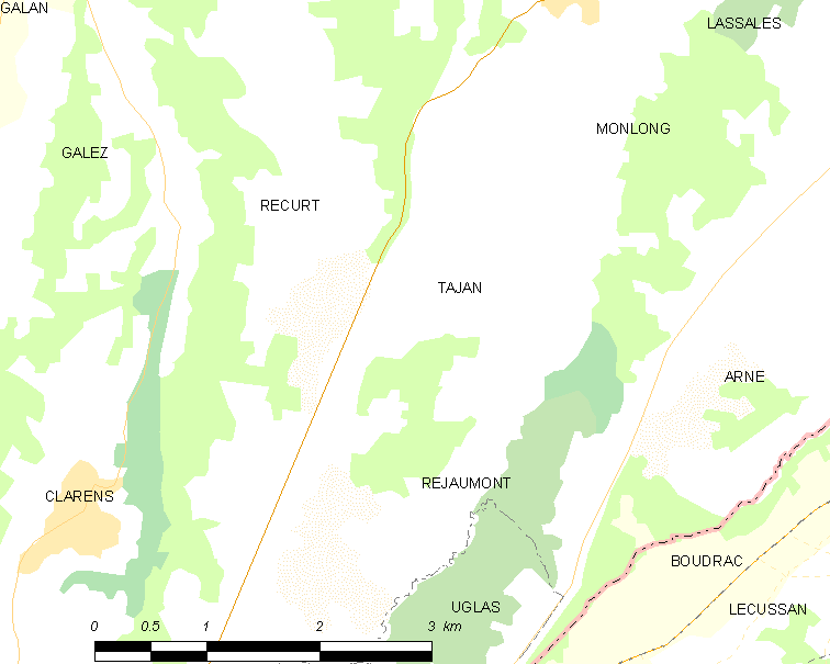 Map of French municipality